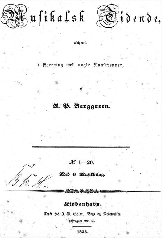 Musikalsk Tidende - a short lived music magazine from 1836 with only 20 volumes, edited by the composer A.P. Berggreen "... with some art friends" ('... i Forening med nogle Kunstvenner')